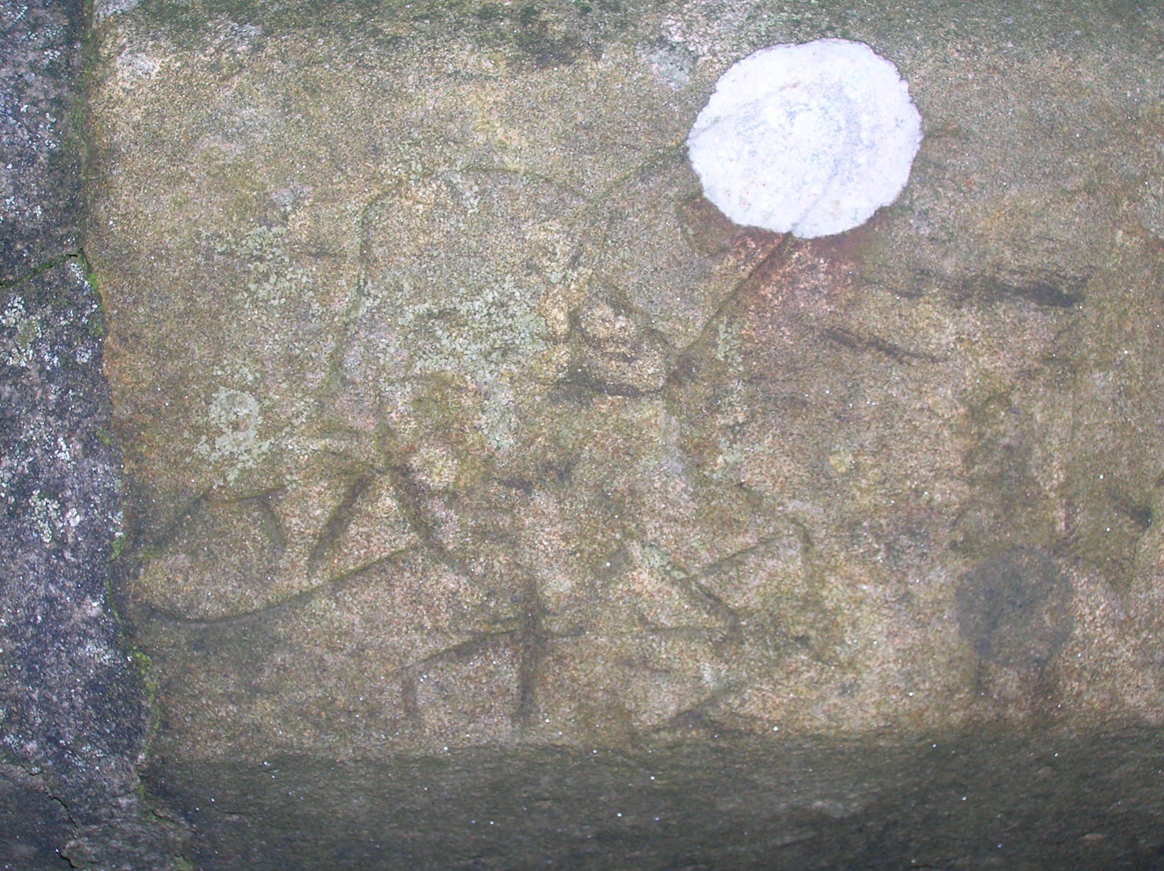 An aeroplane carved onto the parapet of the road bridge over the old Cunnighamhead Railway station. A bit of social history - probably by pupils or locals from Crossroads.